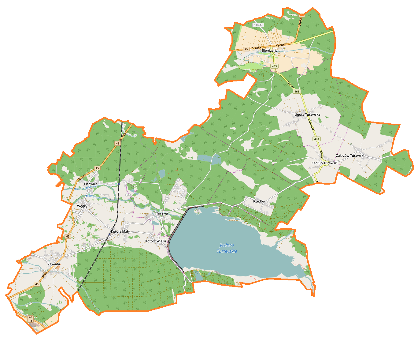 Location map